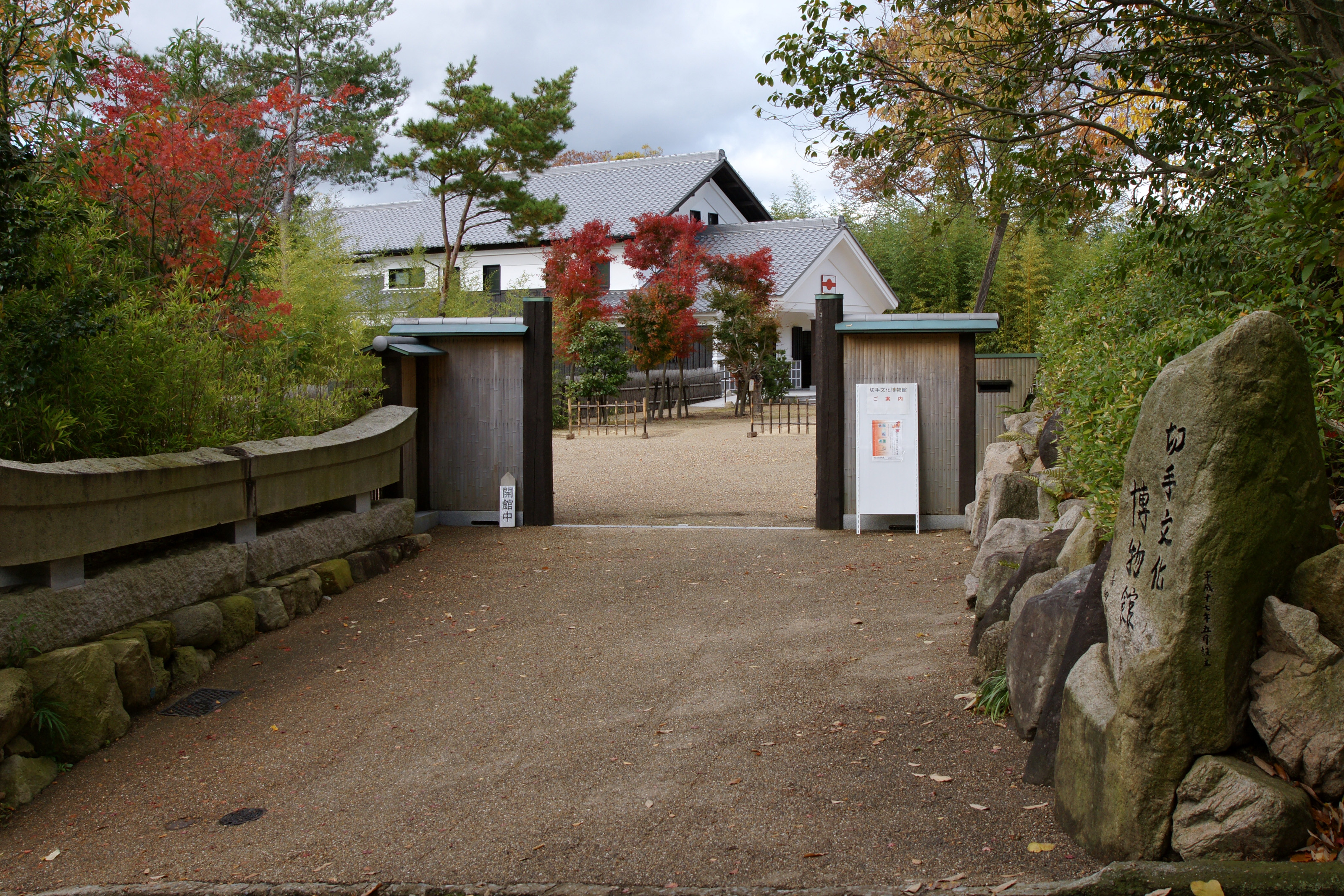 The Philatelic Culture Museum Arima, Kobe of Arima onsen in Kobe, Hyogo prefecture, Japan